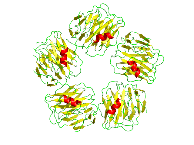 Author: Simon KolstoeSource: Original, image made using Pymol and molecular coordinates obtained from my own X-ray Crystallographic studies of this protein.Reason for Upload: To add to my article on serum Amyloid P component